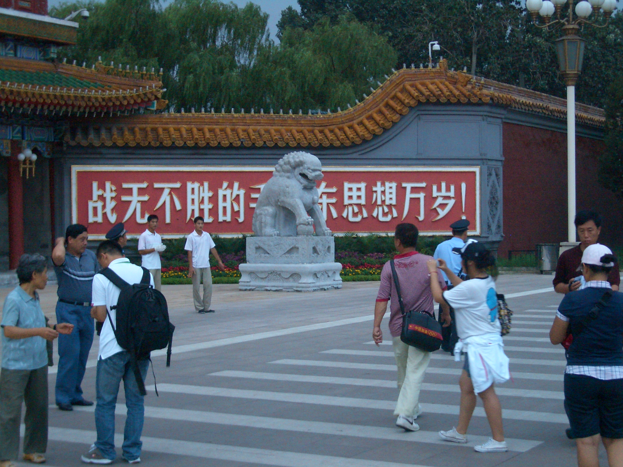 The south gates of Zhongnanhai